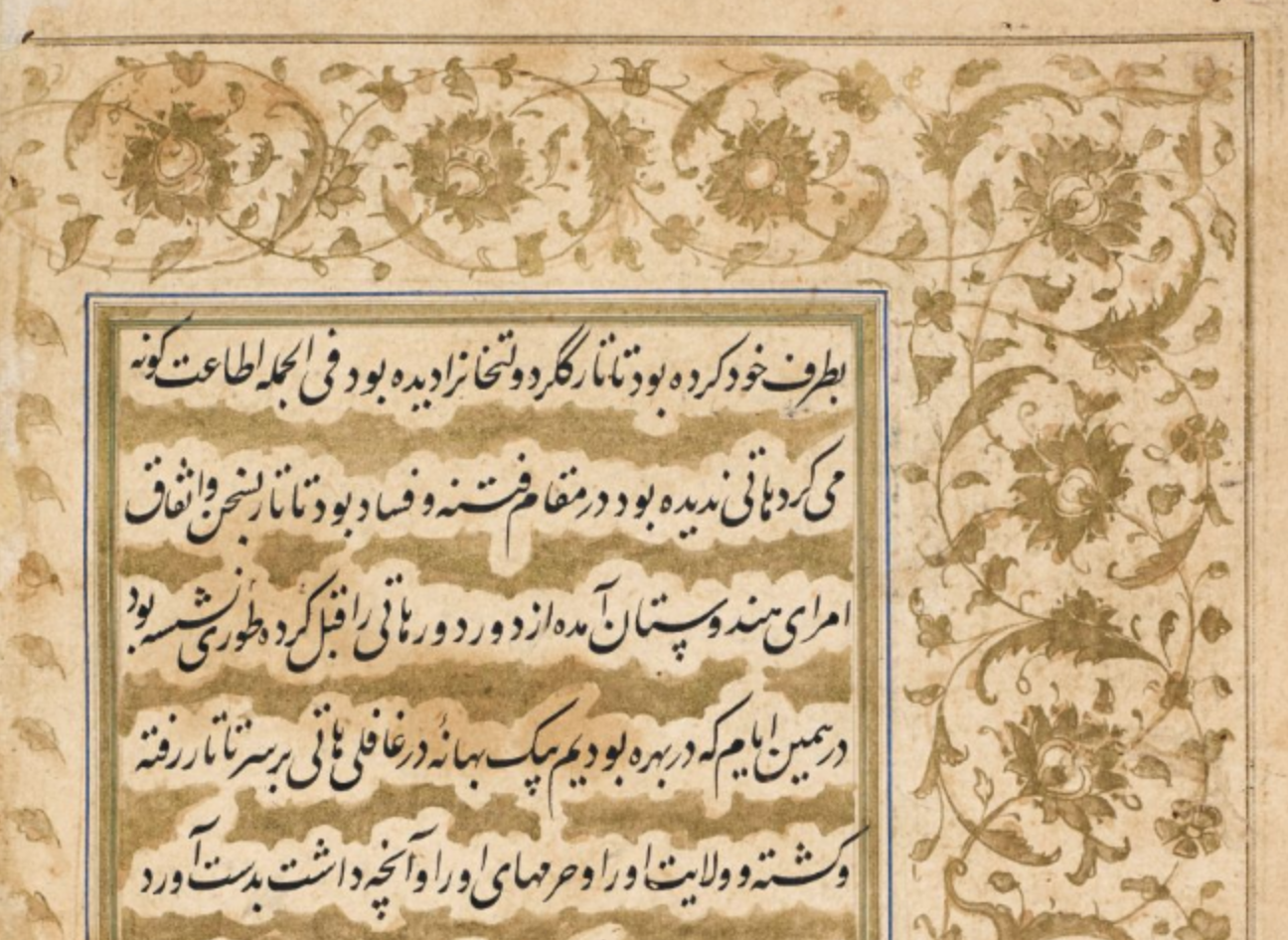 Mention of Tatar Khan assassination by Hathi Khan in Baburnama.